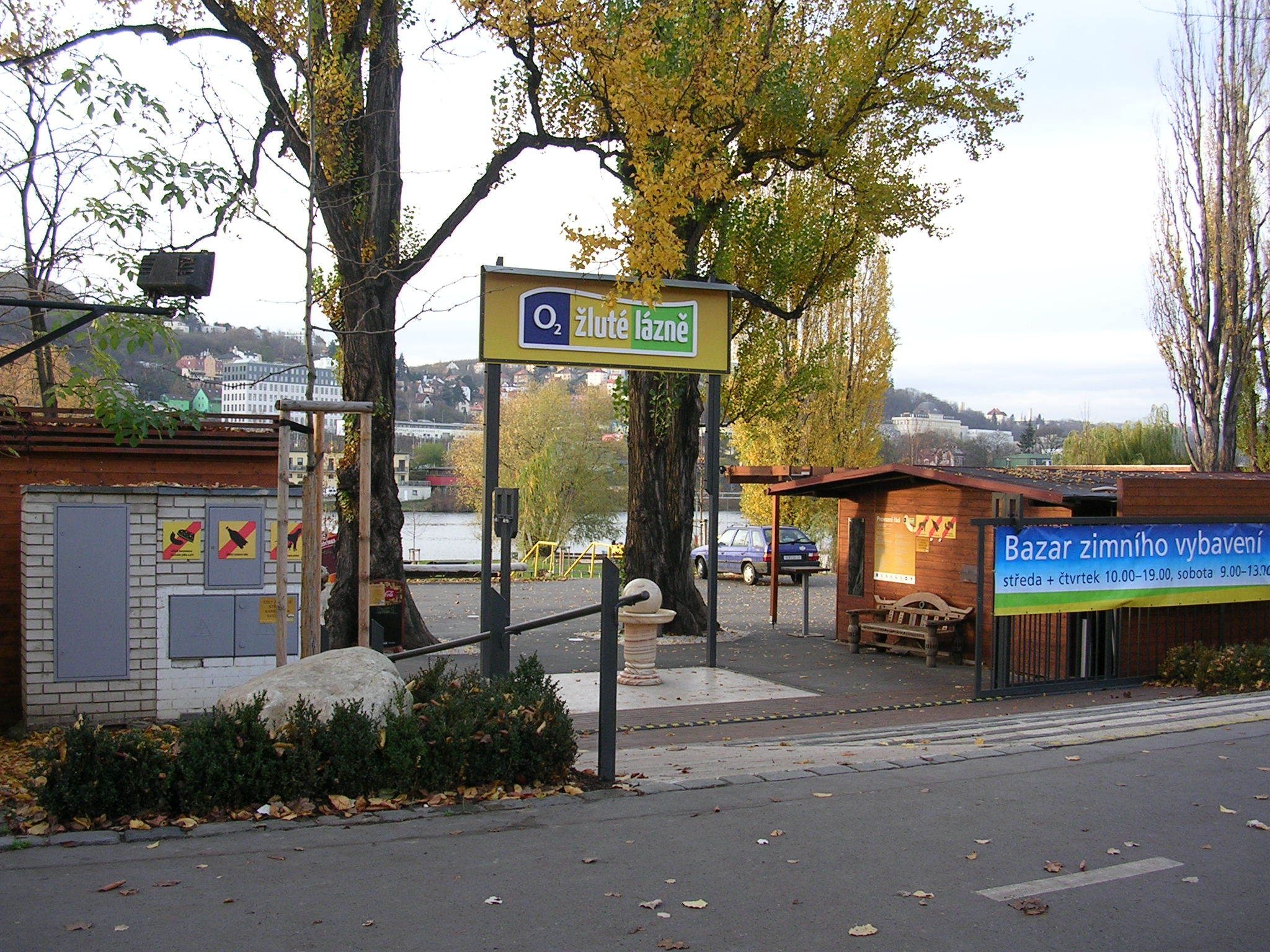 Podolí, Prague.